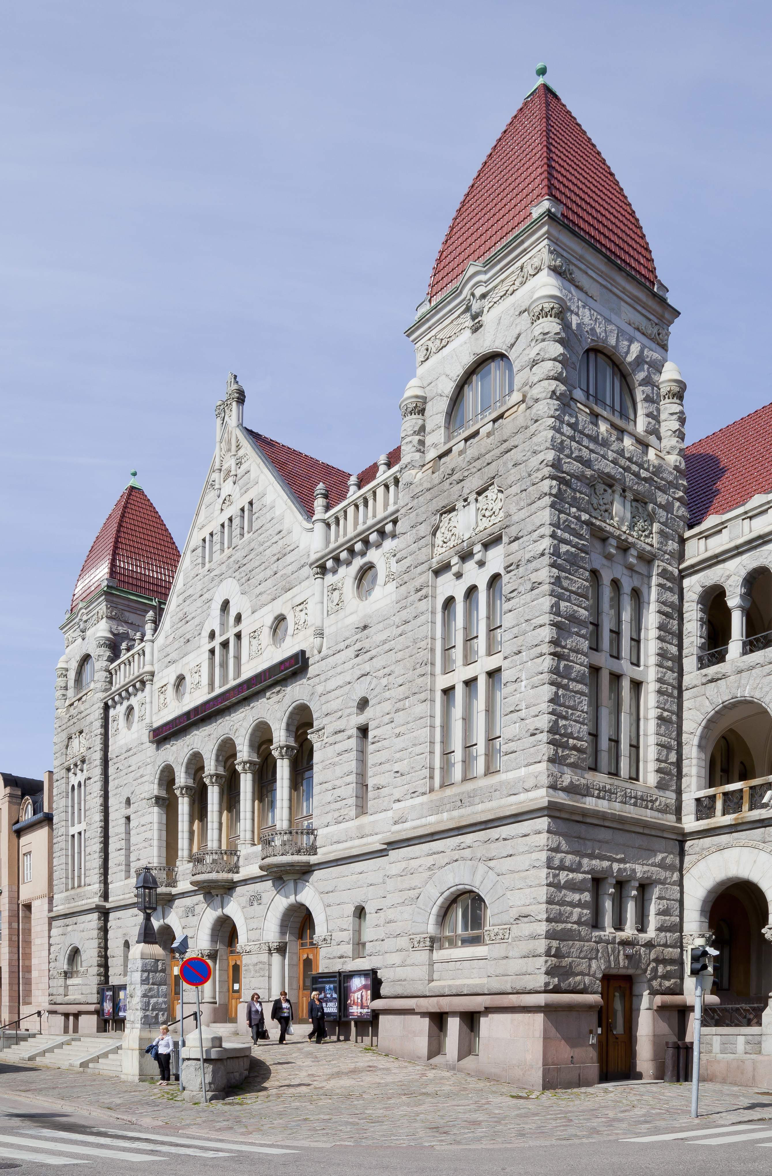 Finnish National Theater, Helsinki, Finland